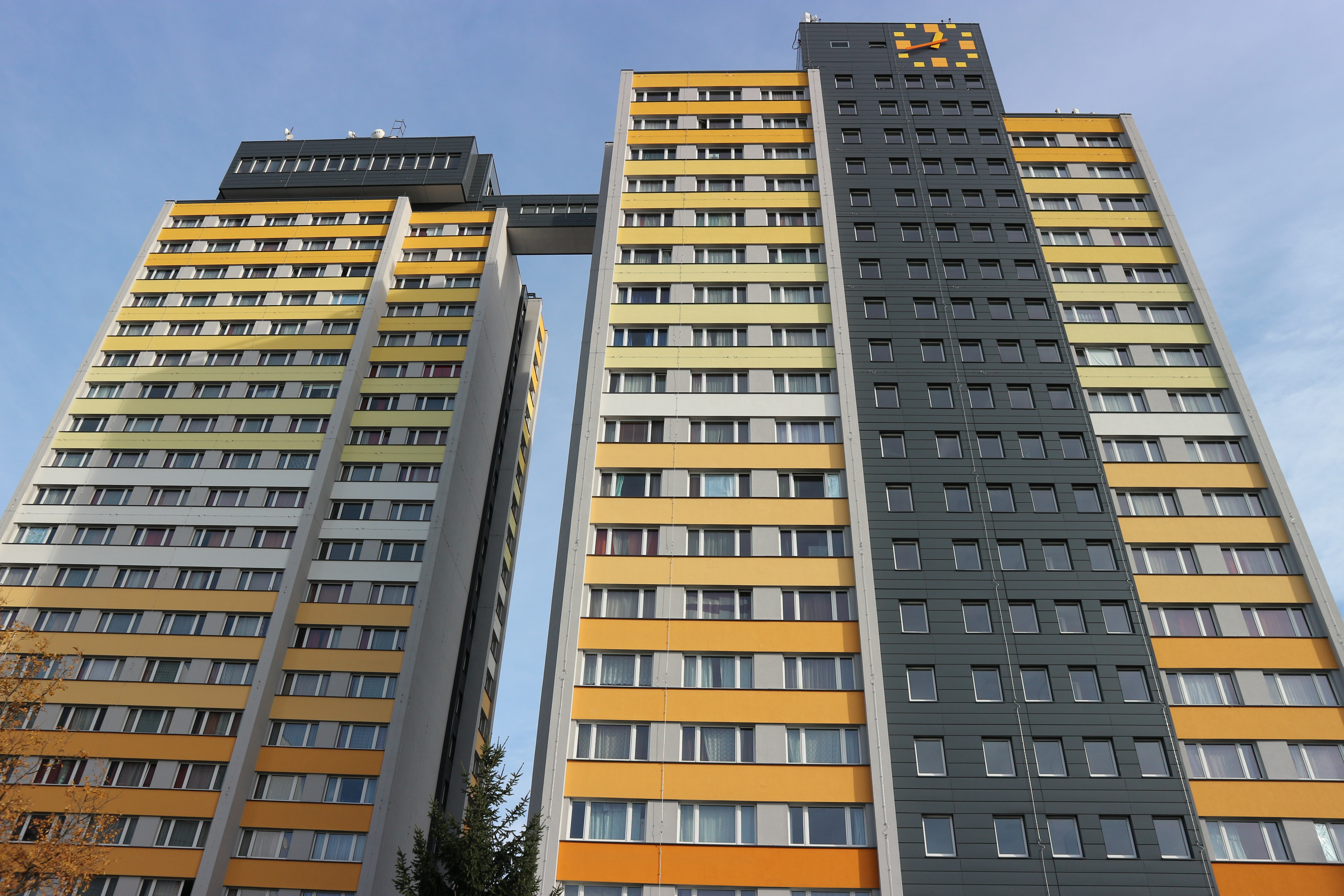 Hotel Kupa after reconstruction in 2016